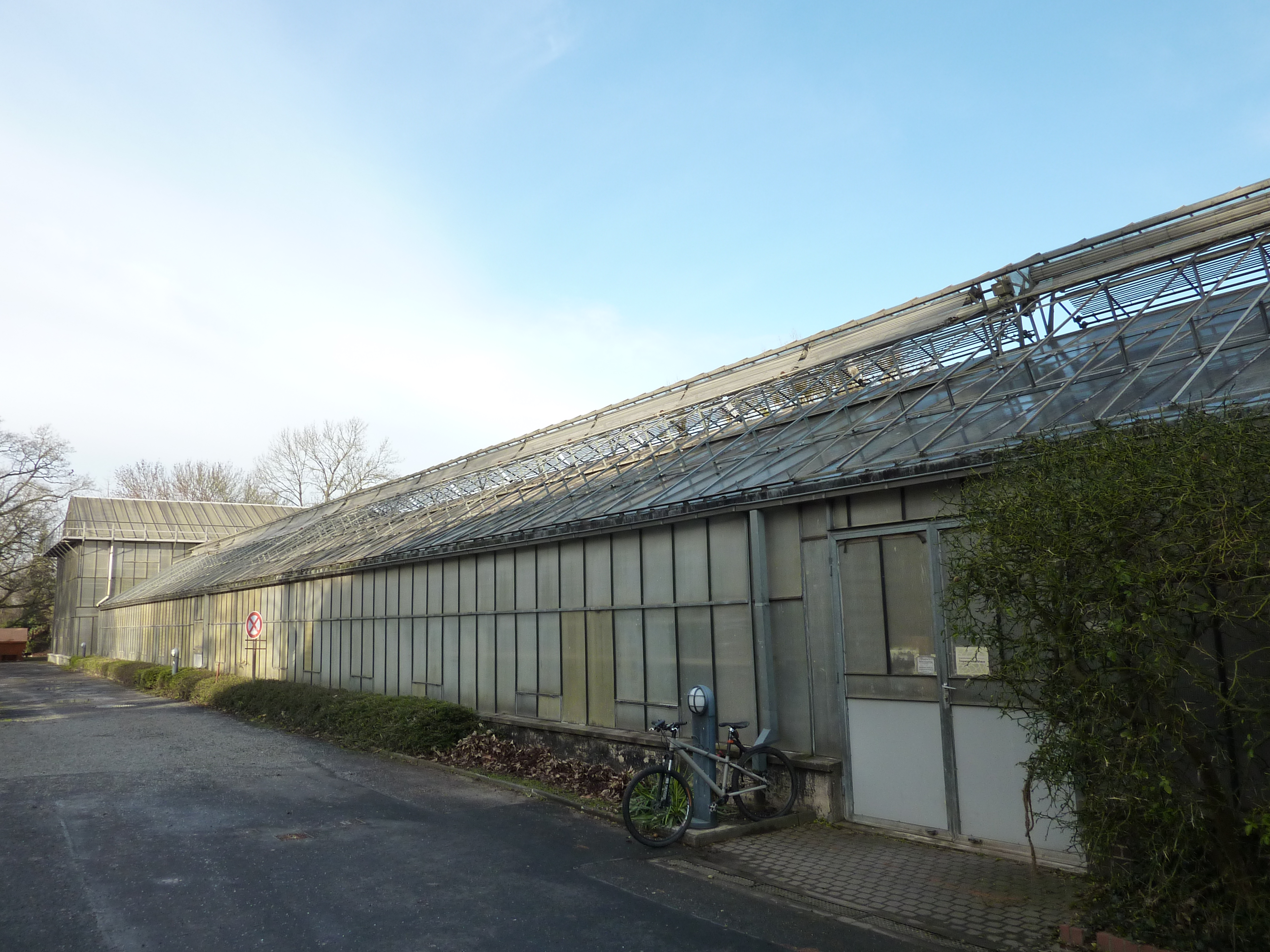 The greenhouse of the Deutsches Institut für tropische und subtropische Landwirtschaft, Witzenhausen, Germany